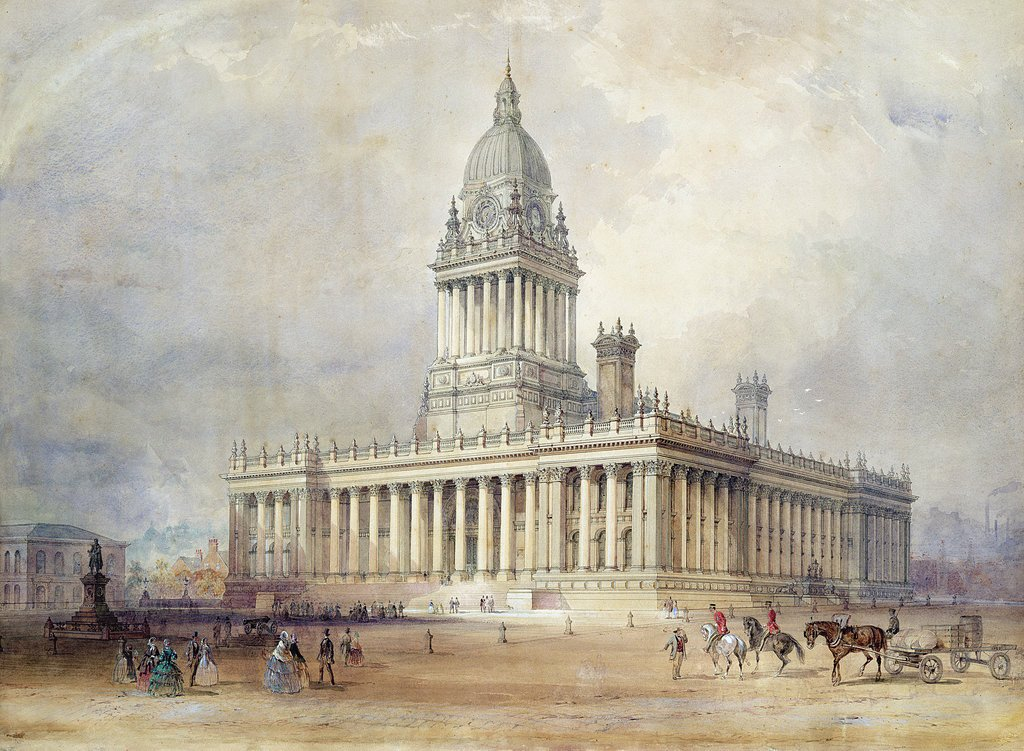 LMG109224 Design for Leeds Town Hall, 1854 (w/c on paper) by Brodrick, Cuthbert (1822-1905); 63.9x91.6 cm; Leeds Museums and Galleries (City Art Gallery) U.K.; British, out of copyright